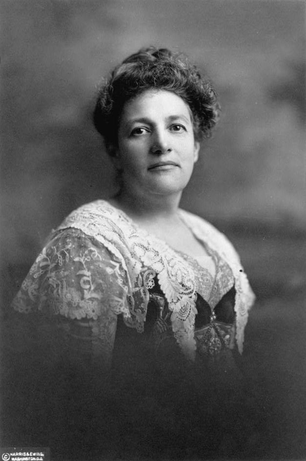 Florence Prag Kahn, member of the U.S. House of Representatives (D-California).